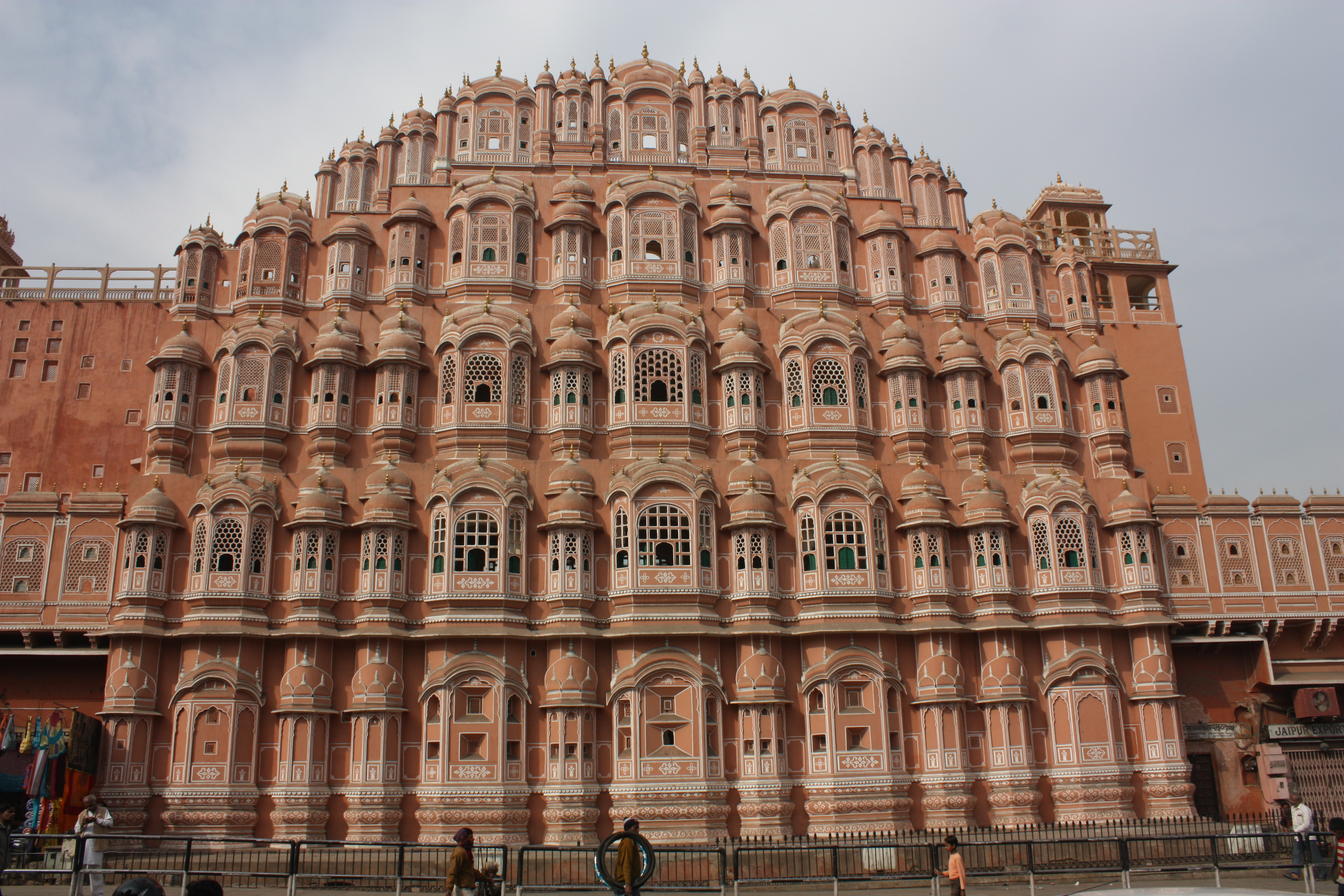 Jaipur, Hawa Mahal (Palace of the Winds)